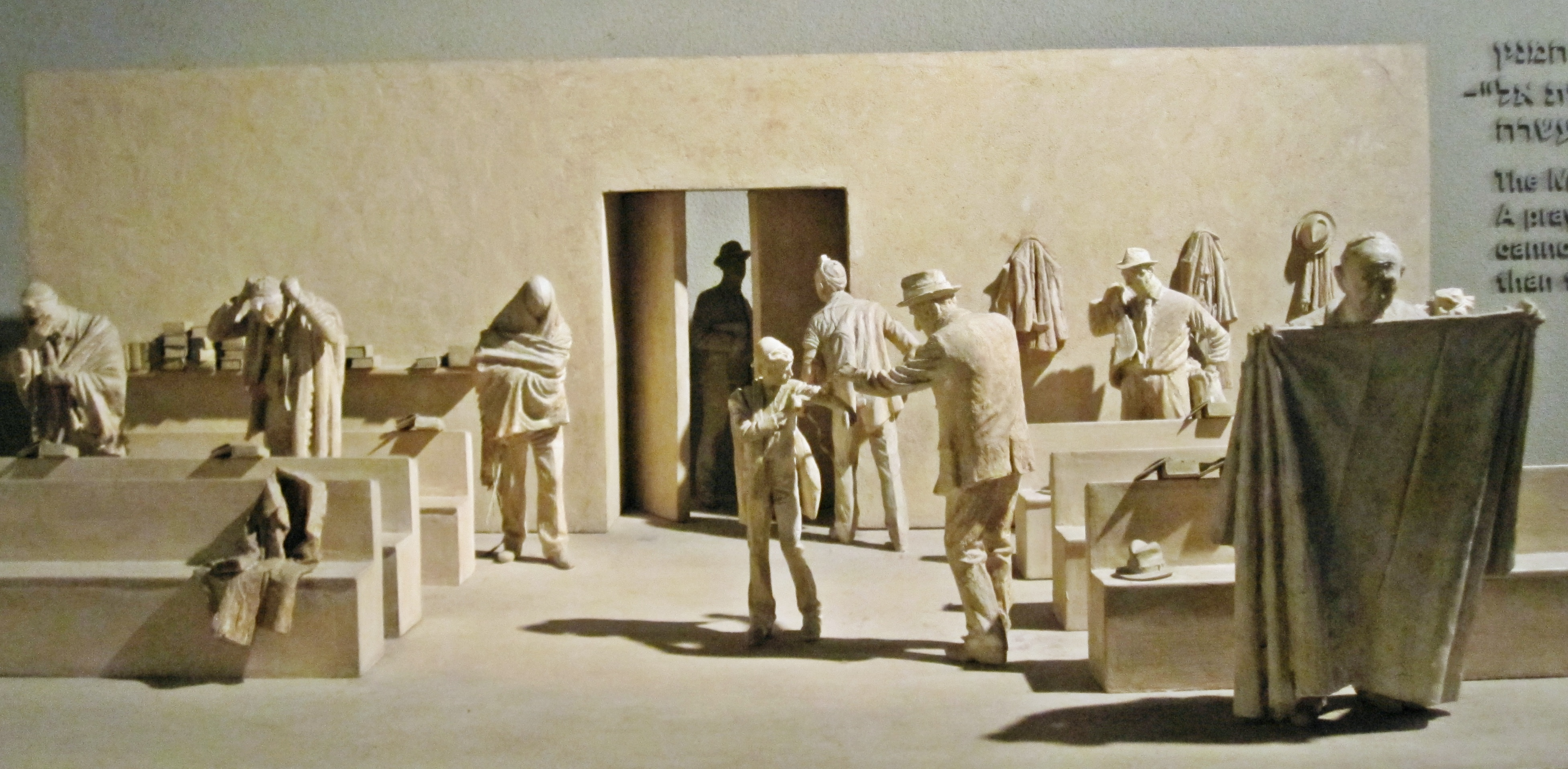 This is a photo of an exhibit at the Diaspora Museum, Tel Aviv - Beit Hatefutsot. Depicts a group of jews waiting for the tenth man for Minyan